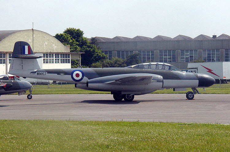 Privately-owned Gloster Meteor NF11 Night Fighter (WM167) at the Classic Jet Air Show, Kemble, England, in June 2003. On UK civilian register as G-LOSM. Built 1952, in RAF service 1952, left RAF service 1975. In camouflage and markings of RAF 141 Squadron, Coltishall.